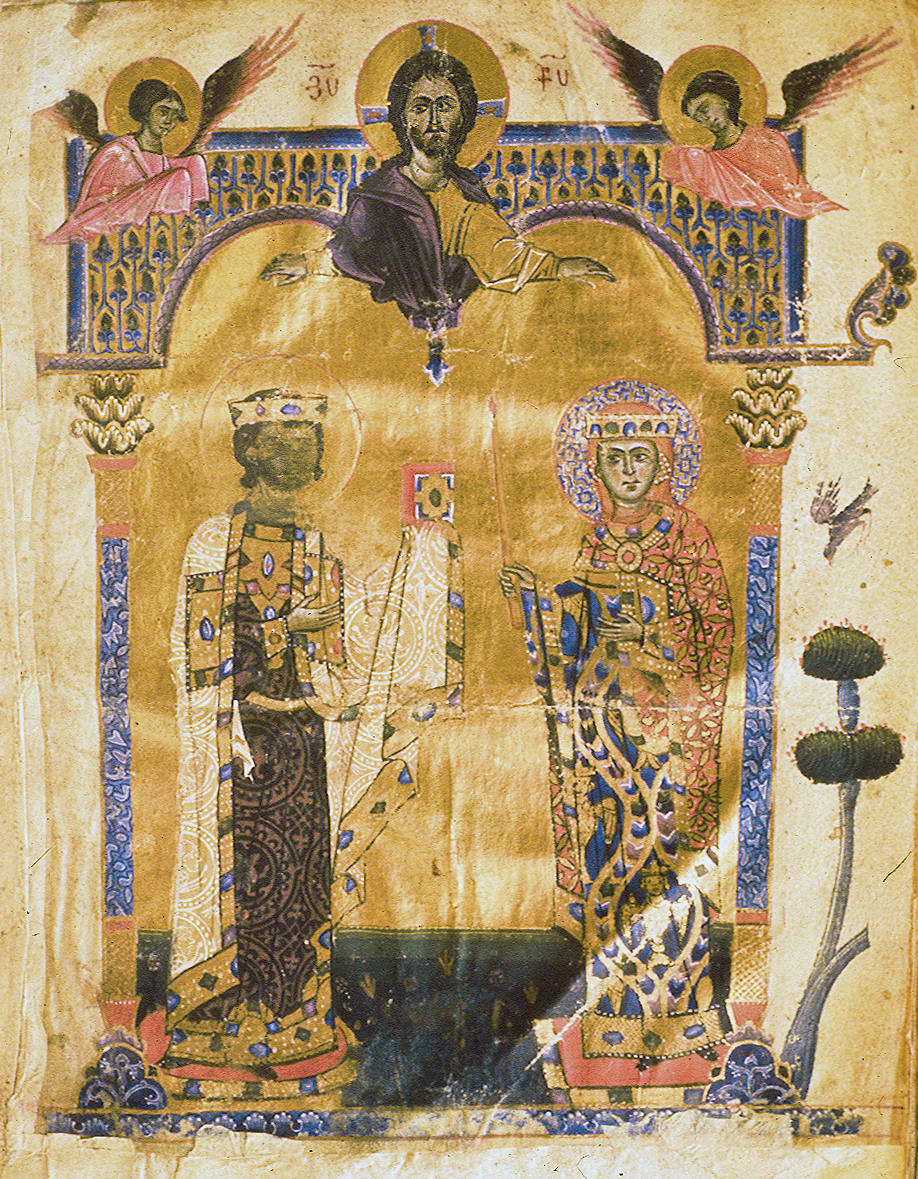 Jerusalem, Armenian Patriarchate, MS 2660, Gospel, 1262, artist Toros Roslin, portrait of King Levon and Queen Keran. Photo: Garo of Jerusalem